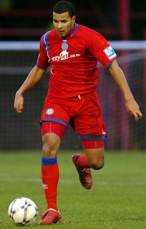 at the recreation ground in the conference premier 2008